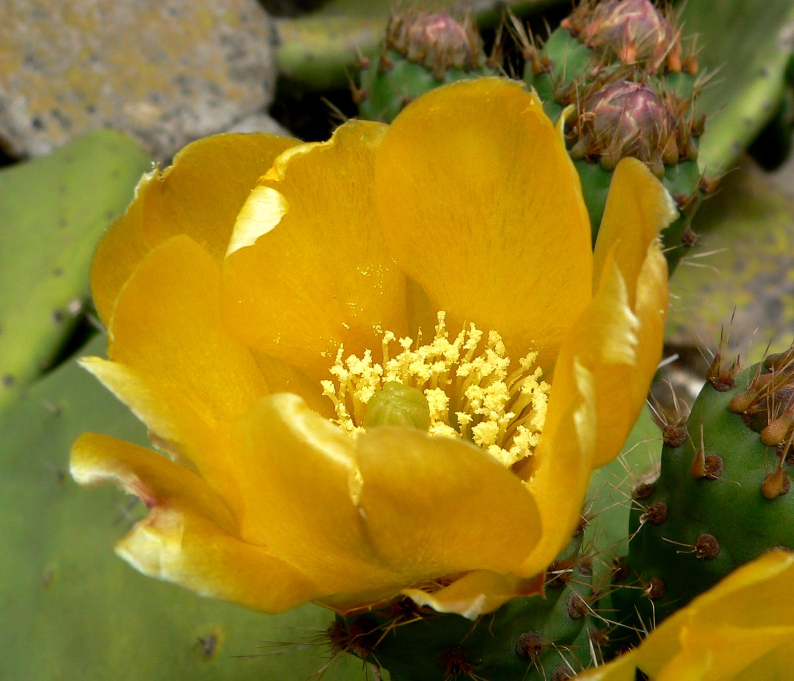 Photo of Opuntia ficus-indica at the San Francisco Botanical Garden